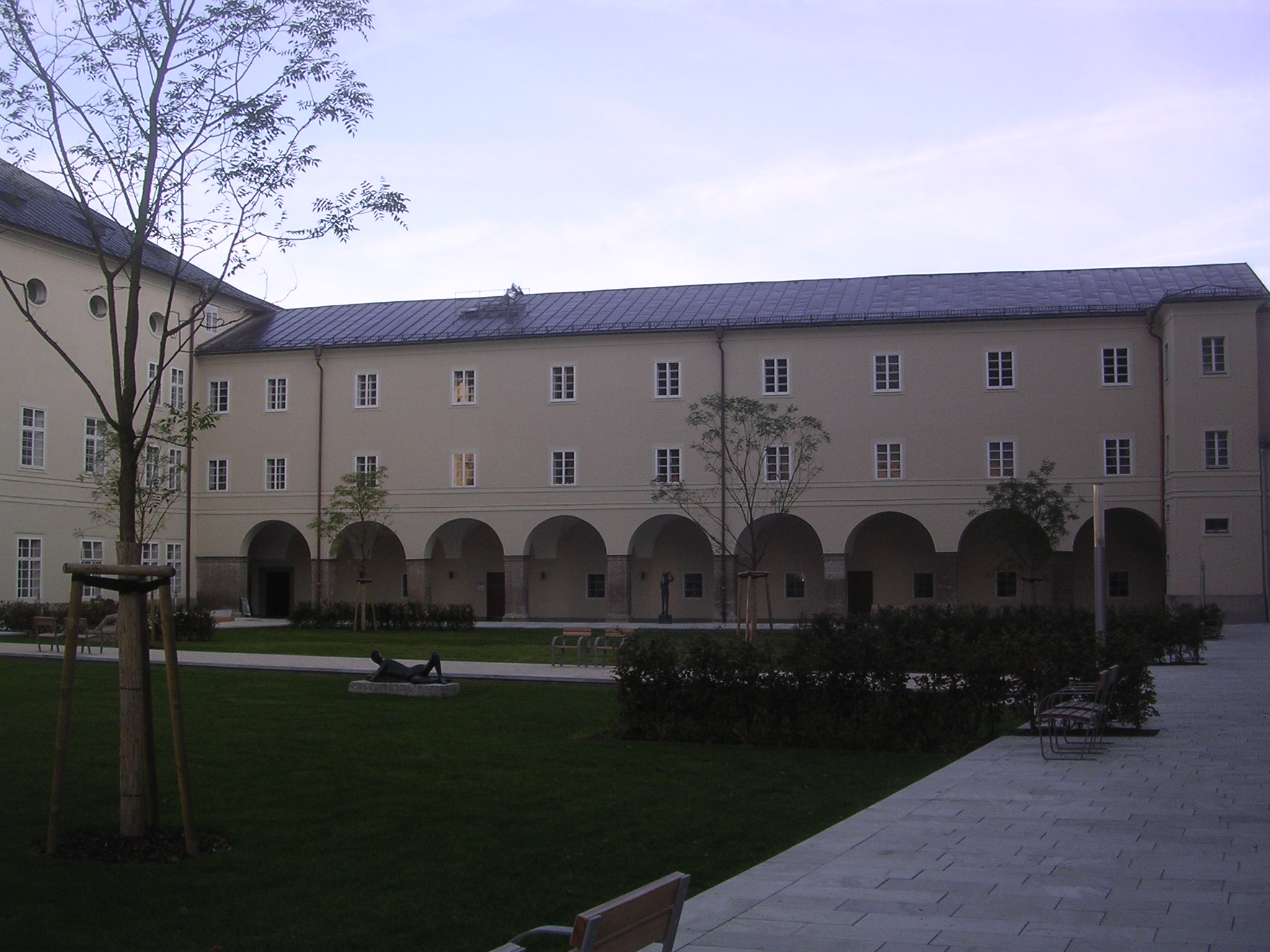 University of Salzburg